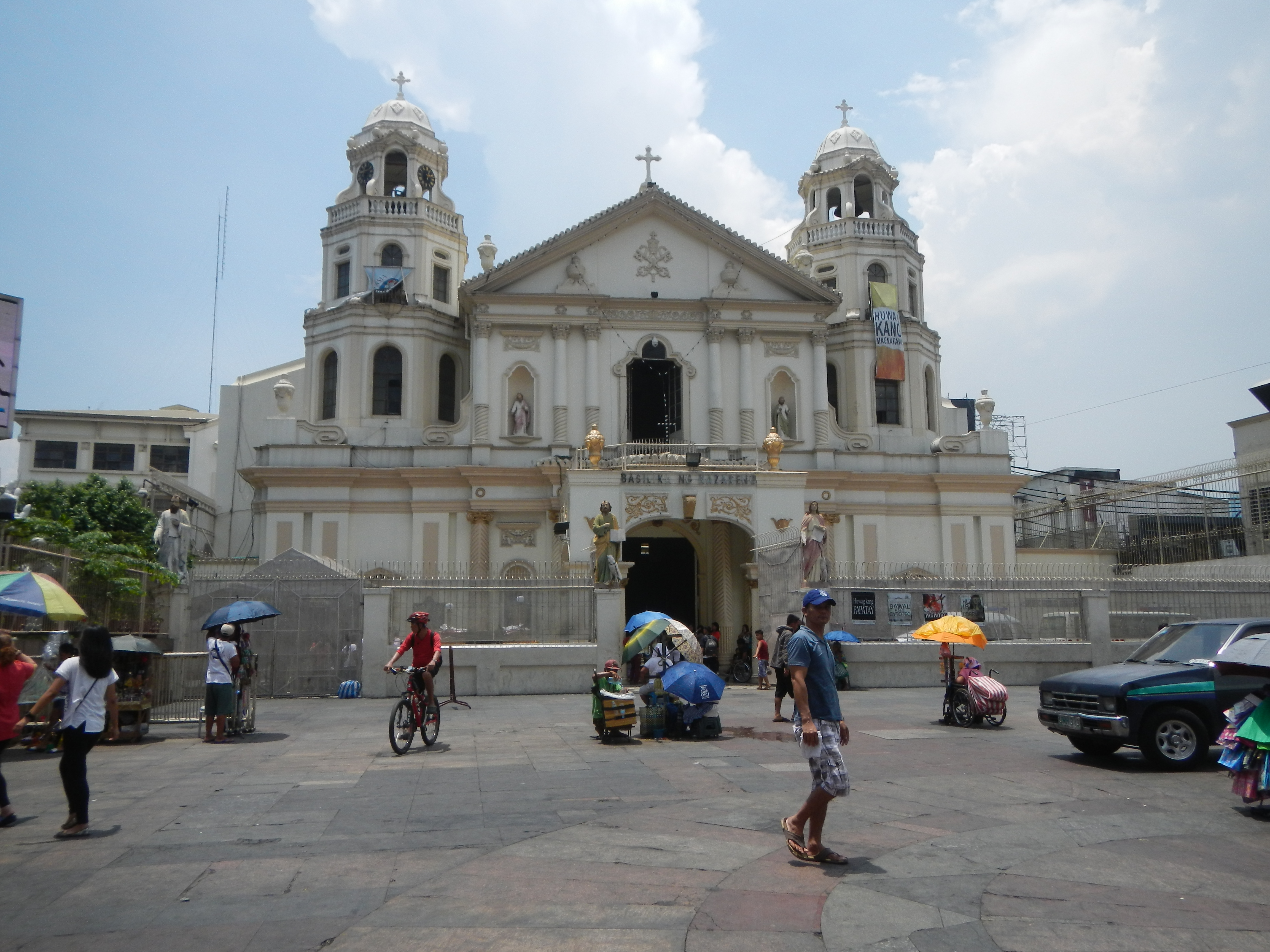 Plaza Miranda Quiapo Church, Quiapo, Manila, Legislative districts of Manila, City of Manila.